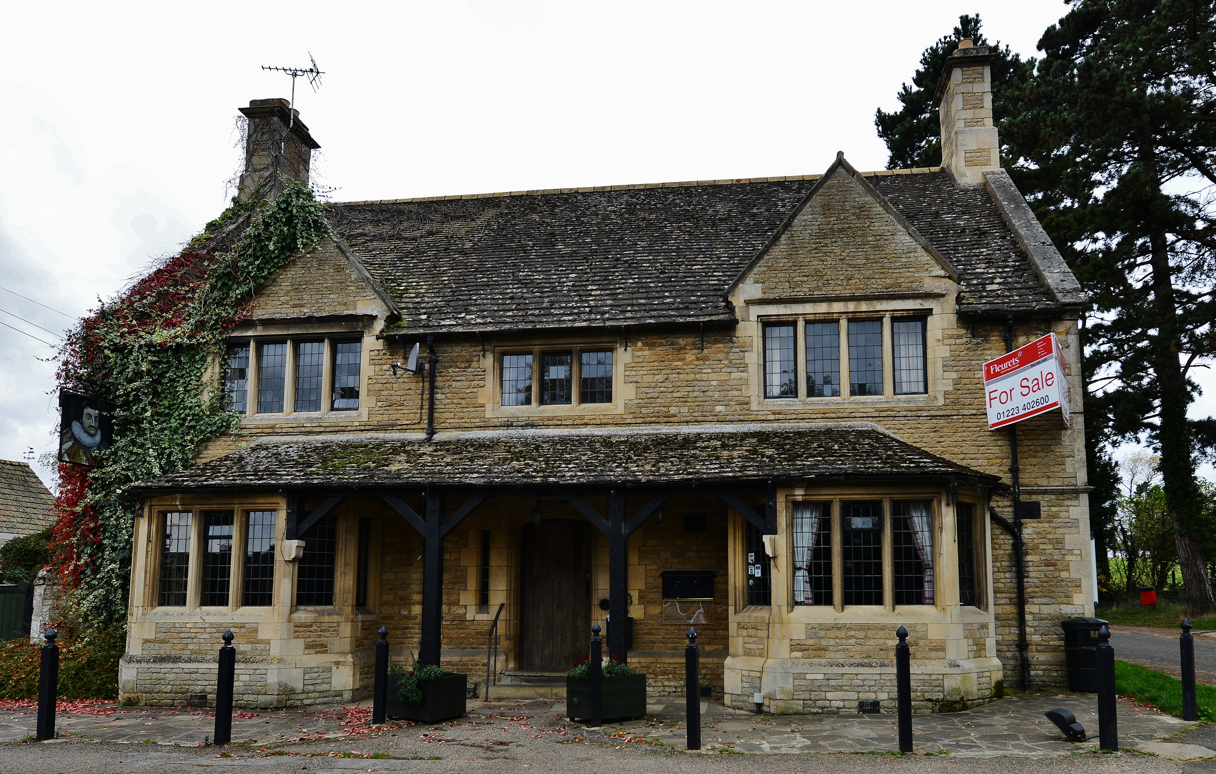 Apethorpe: The Kings Head PH 1